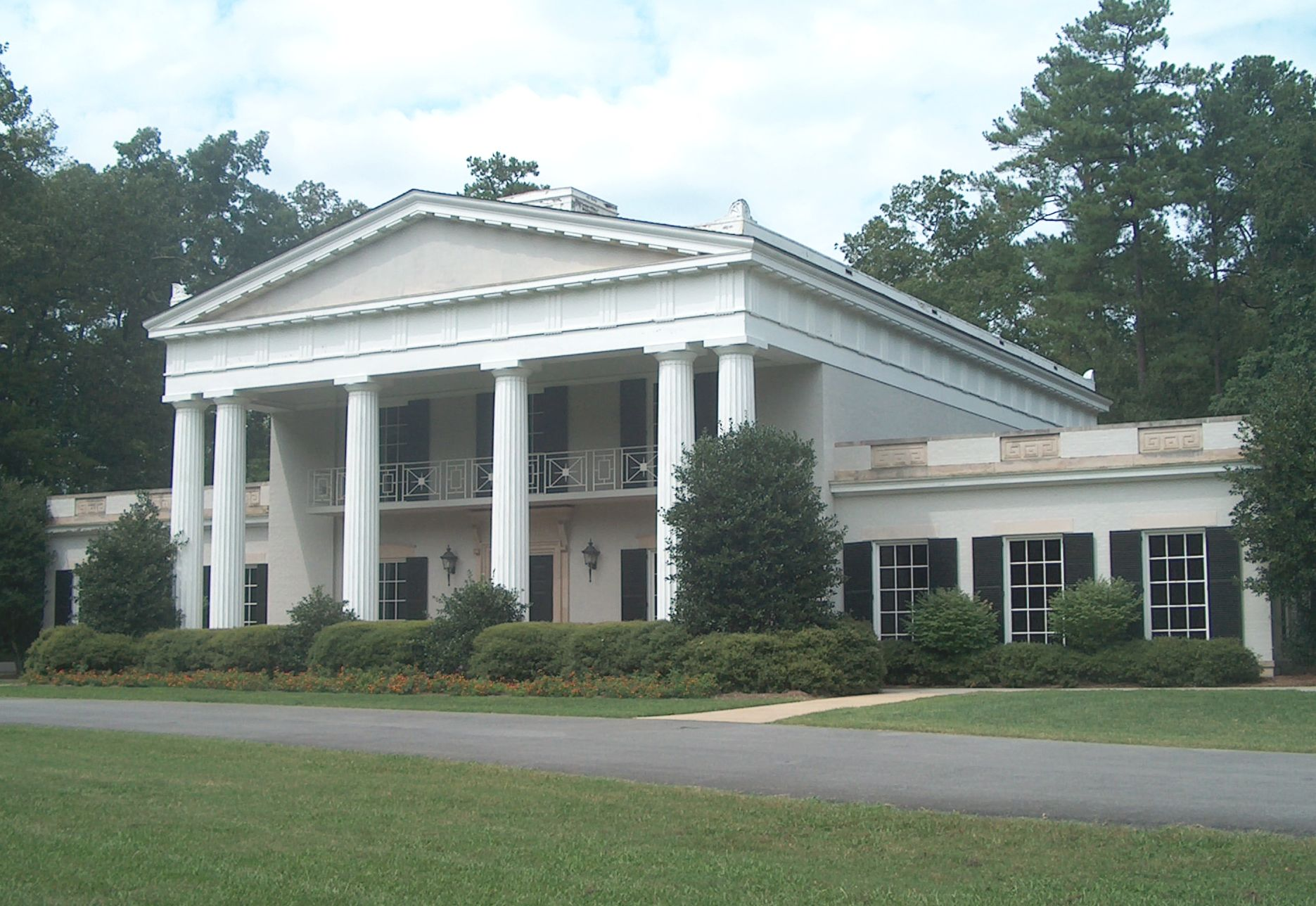 Berry Museum in Rome, Georgia.